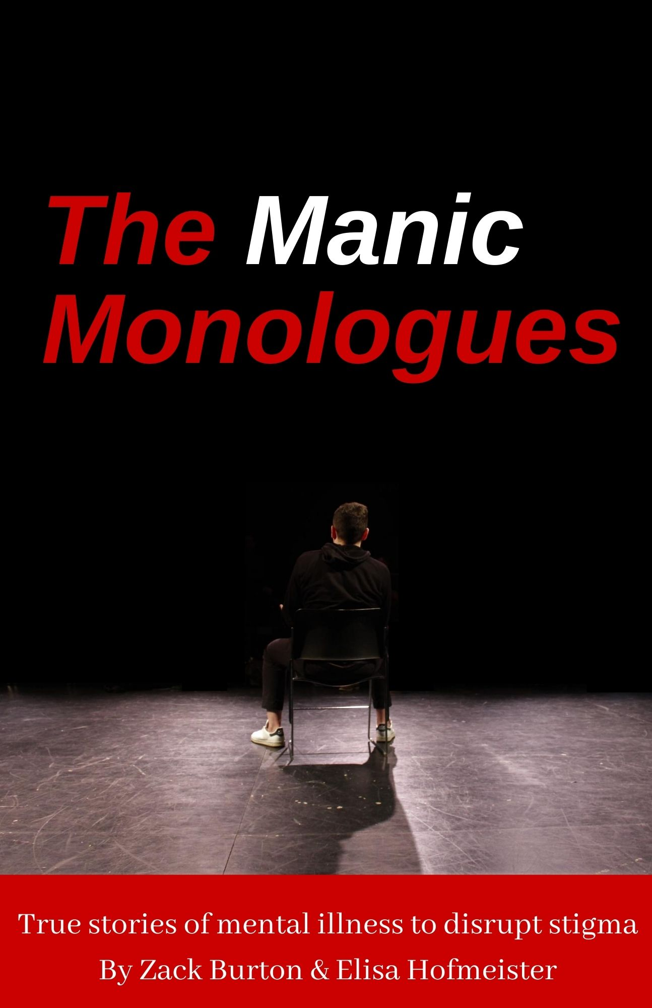 This is a poster for The Manic Monologues, a play consisting of true stories of mental health disorders to destigmatize mental illness.